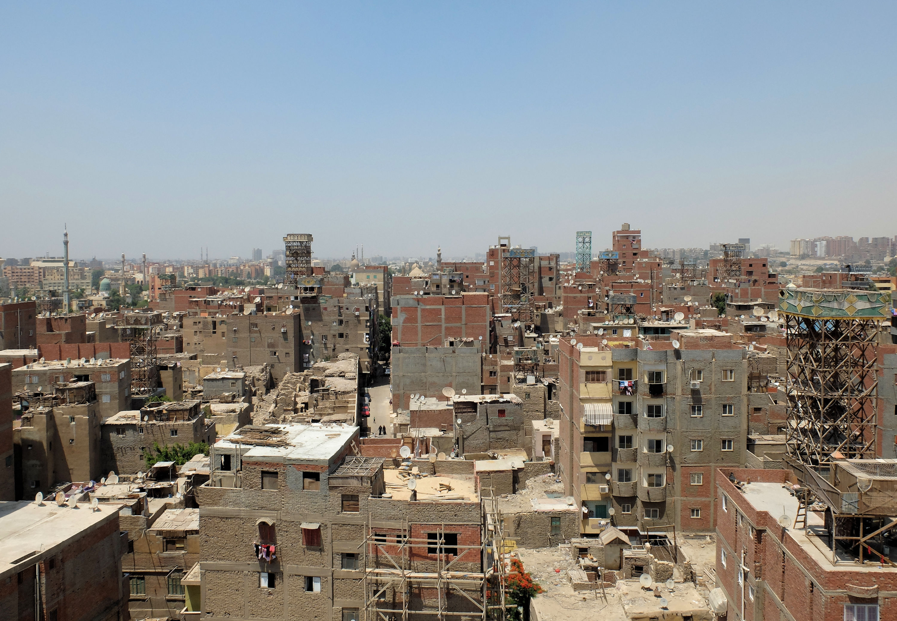 View of residential blocs in the Qaybtay neighbourhood in the City of the Dead, Northern Cemetery